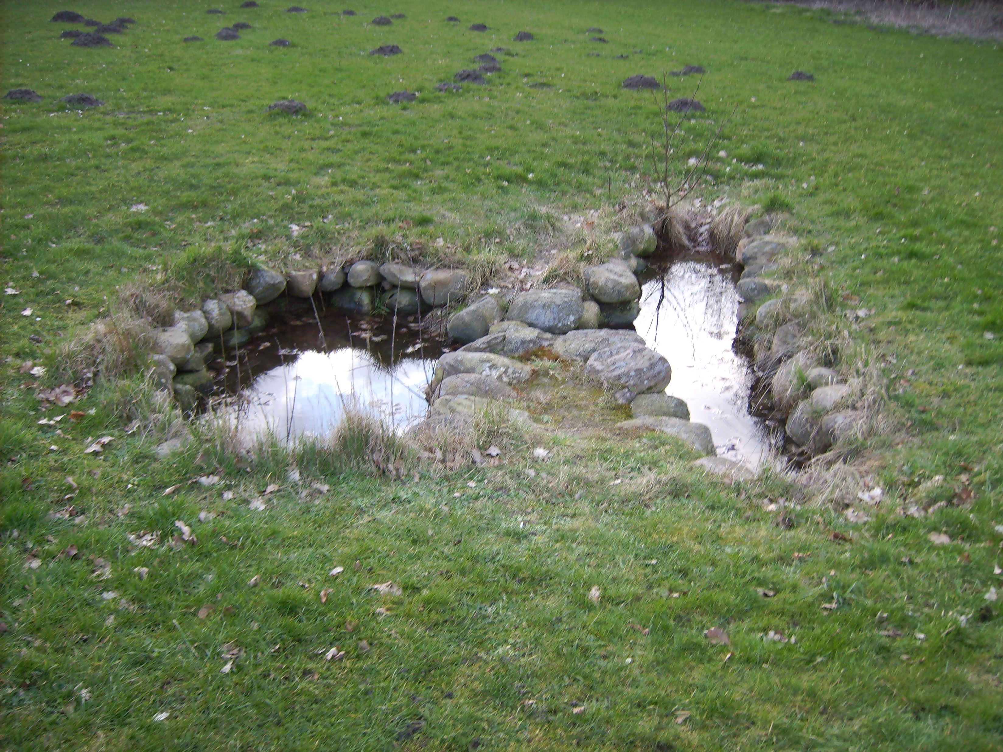 On Løgten Mark in the parish Flade in Frederikshavn municipality, eight stone-built cellars were found during an excavation taking place from 1956 til 1959. However, only six of them can be seen. These cellars date back to the centuries up to the birth of Christ (pre-Roman Iron Age) and along similar cellars around Frederikshavn they established a special type which is not seen elsewhere. They were built as storerooms under or close to the house of the village of that time. SB 159 (Stednavne Løgten Mark), Flade sogn, Frederikshavn Kommune. Anlæg Jernalderkældre.